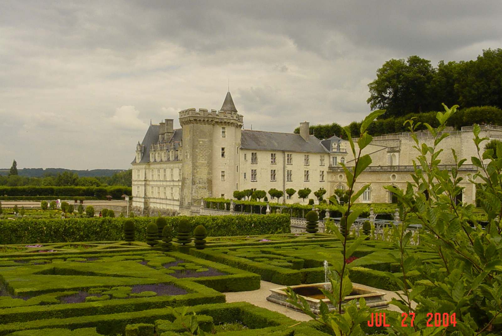 Photo of Chateaux Villandry I took this photo Ebeisher 15:32, 22 May 2005 (UTC)